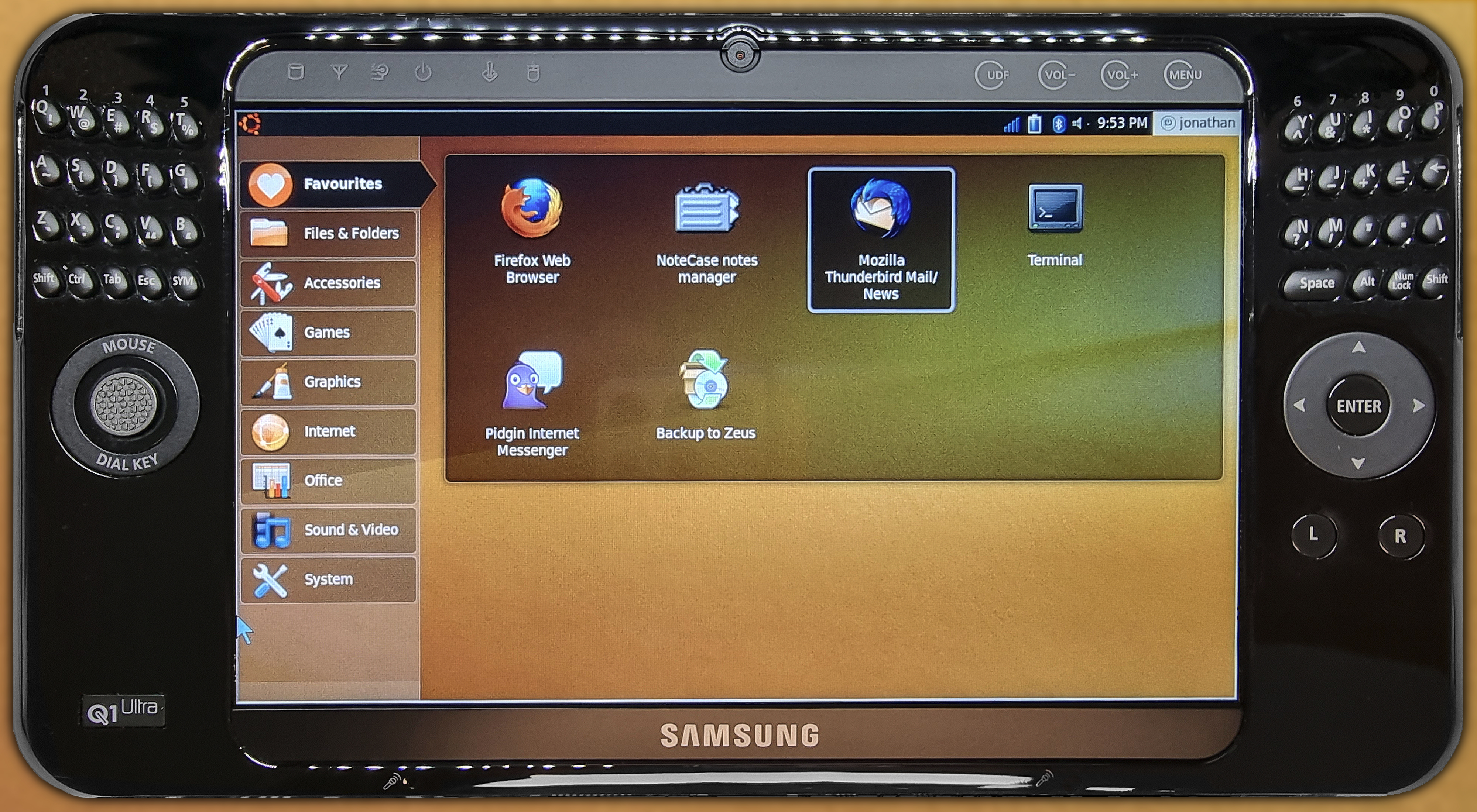 Samsung Q1U UMPC Samsung Q1 Ultra Tablet